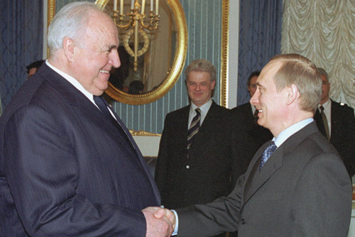 THE KREMLIN, MOSCOW. President Vladimir Putin meeting with former German Chancellor Helmut Kohl.